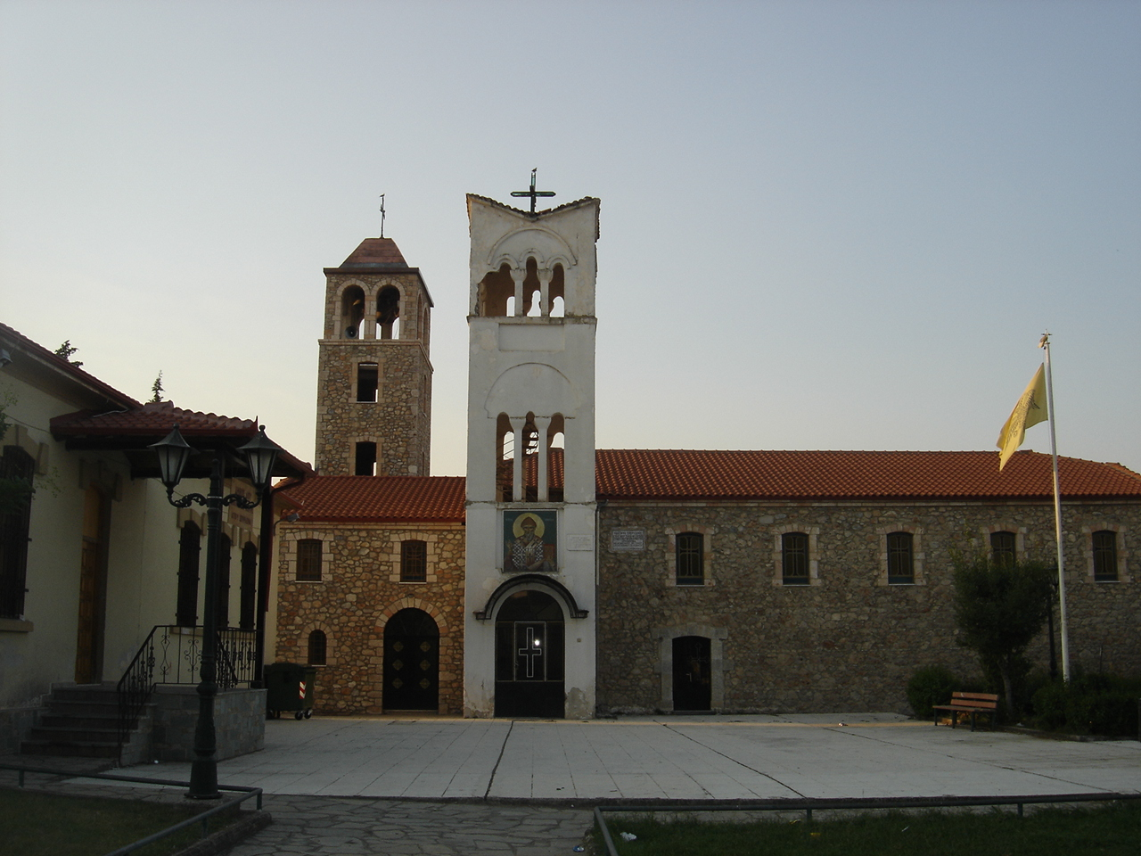 The namesake church of Agios Spiridon.